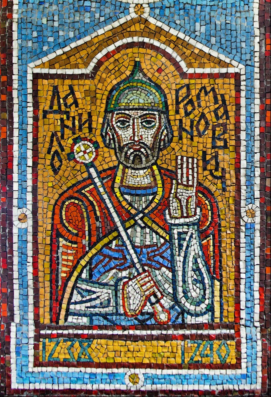 Mosaic of Daniel of Kiev and Galicia-Volhynia (r.1239-1240, in Kiev; 1205-1264, in Galicia-Volhynia)